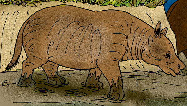 Reconstruction of the semi-aquatic Miocene oreodont, Merycochoerus carrikeri